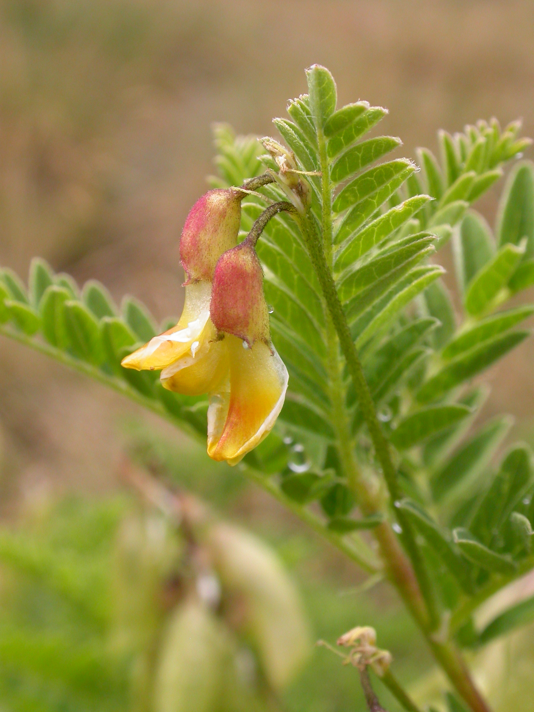 Astragalus penduliflorus Zermatt, Riffelberg (Kanton Wallis, Switzerland), 2500 m Author: Barbara Studer – own photograph Date: 2.08.06